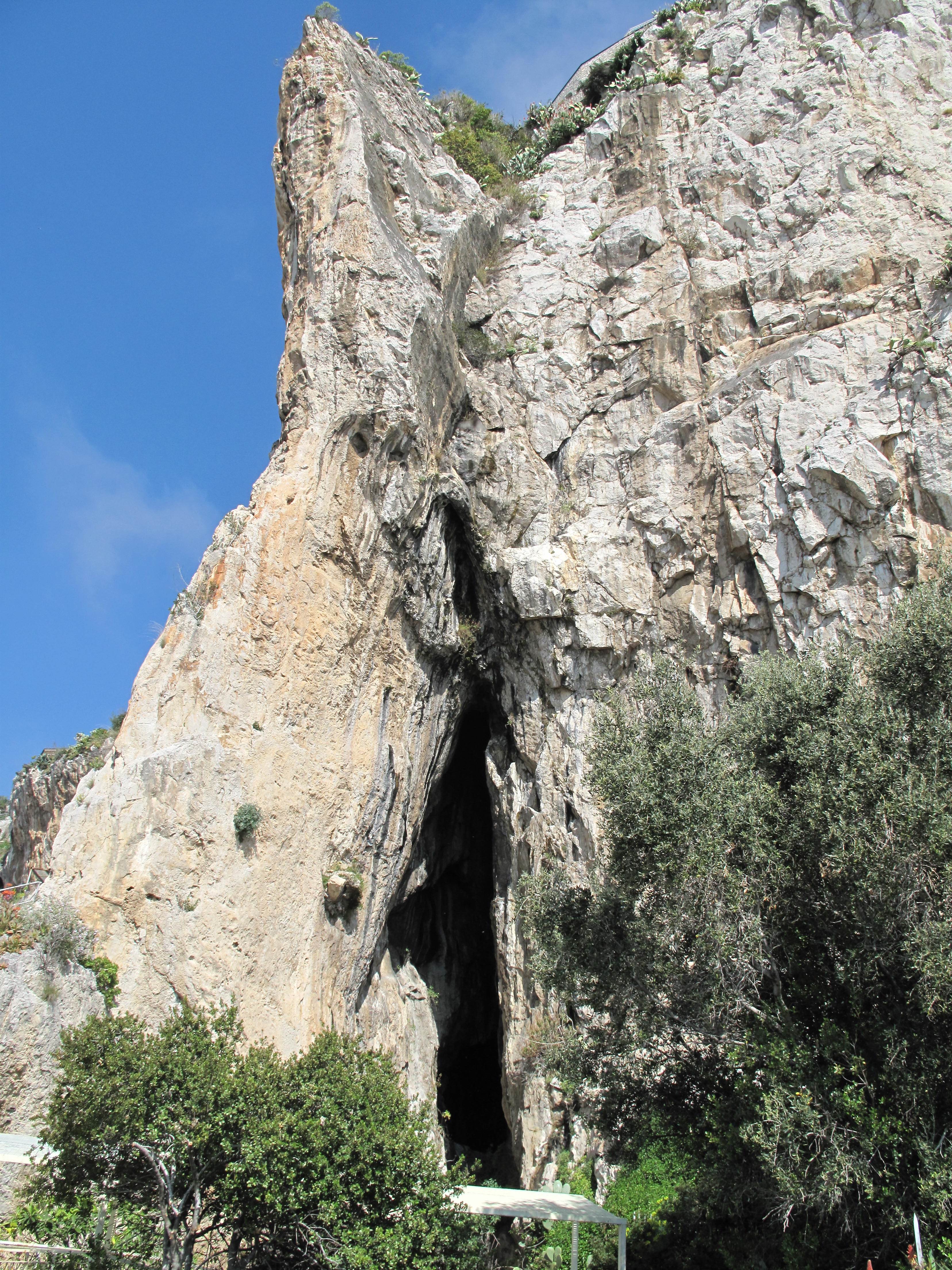 Grotto of Barma Grande in the site of Balzi Rossi, near the French-Italian border between Menton and Ventimiglia.